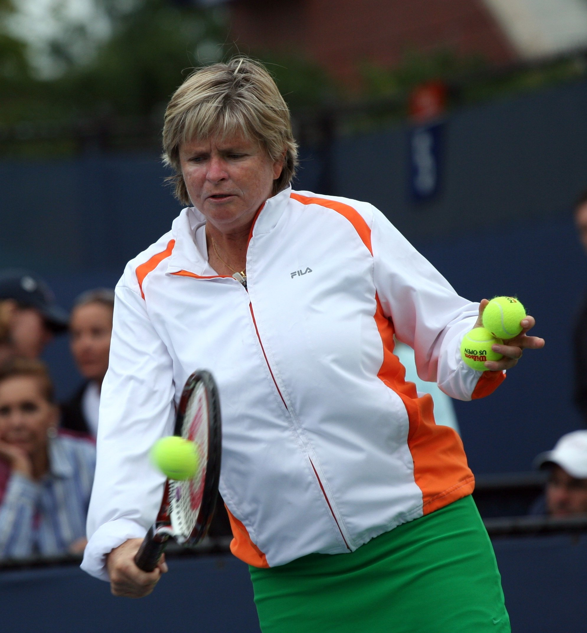 U.S. Open Champions Team Tennis Thursday, Sept. 10, 2009